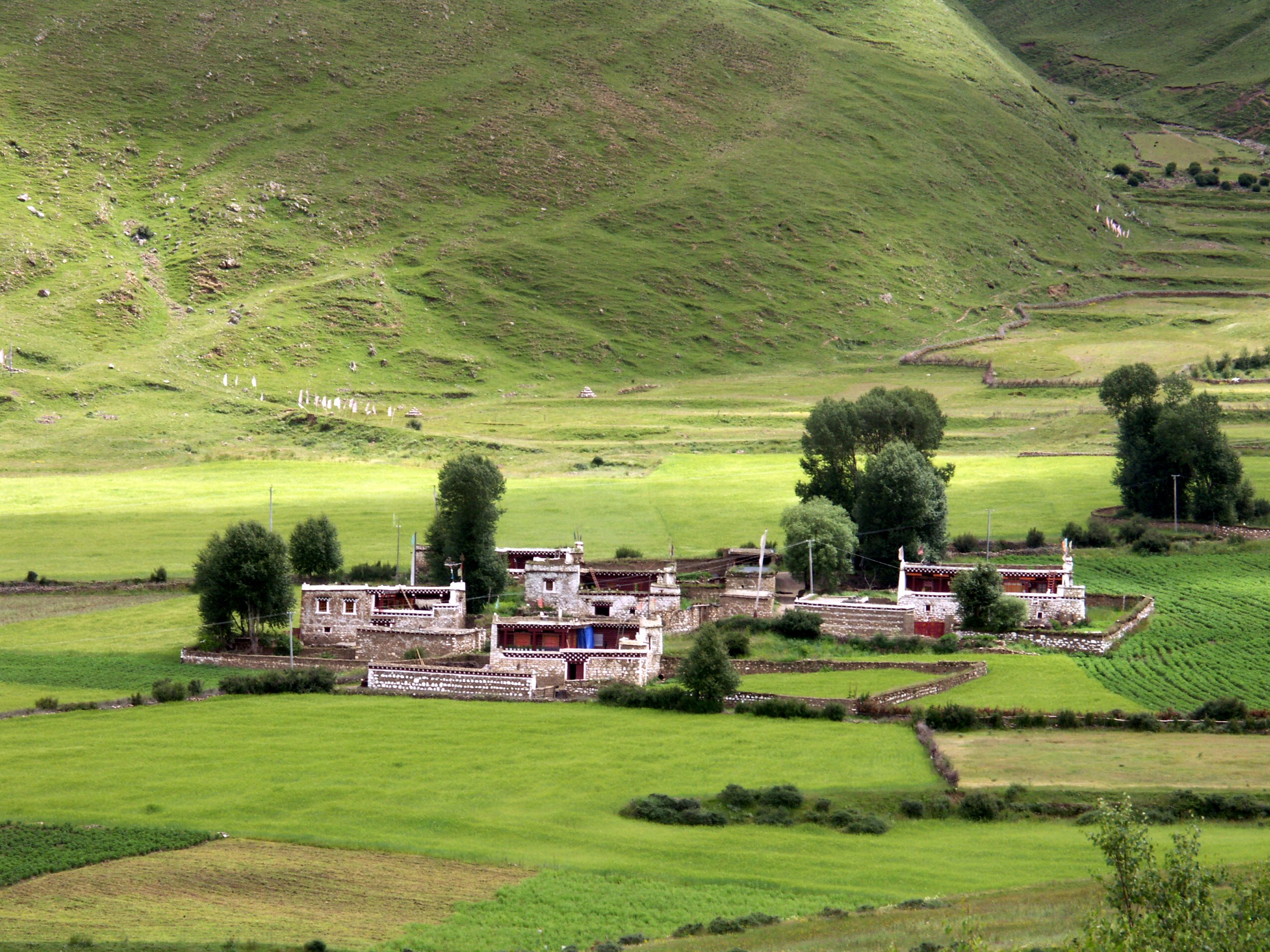 House in Daofu county, Sichuan, China